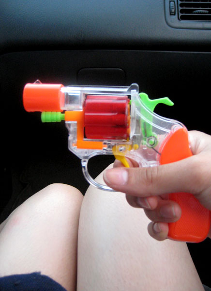 It's loaded.